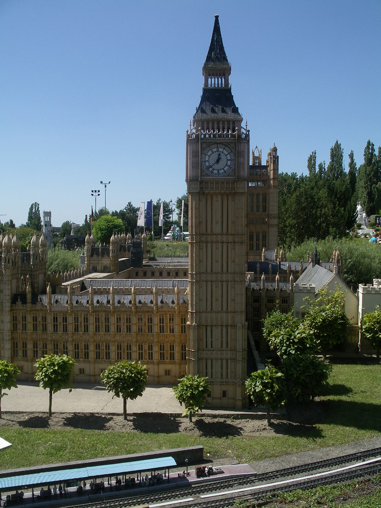 Model of the Houses of Parliament.